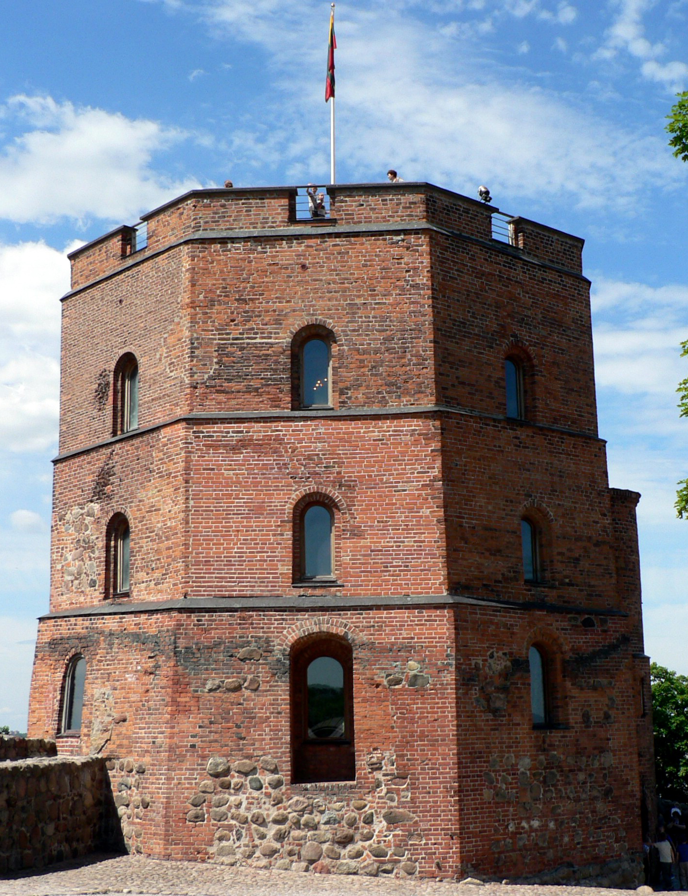 Image was adjusted for usage in Lithuania-struct stub. Image shows Gediminas Tower in Vilnius, LIthuania